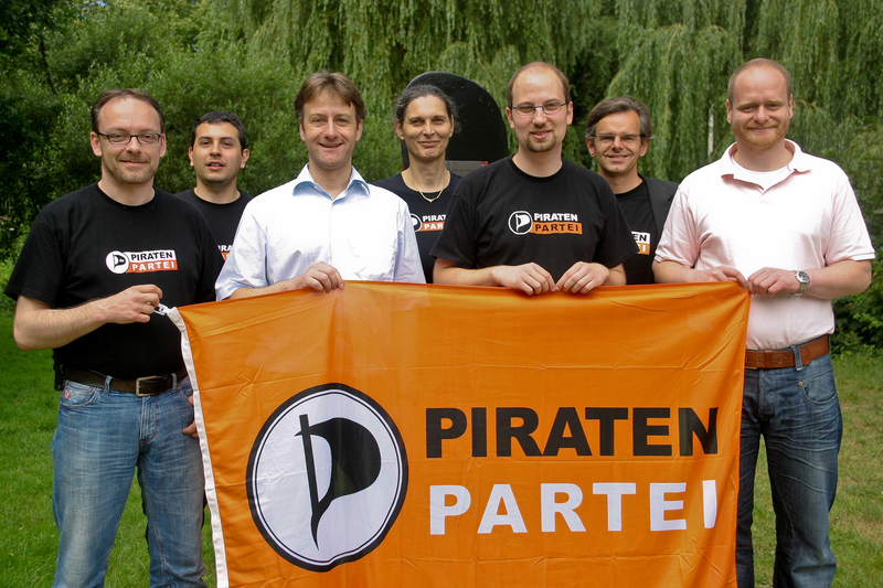 The 2009/2010 party executive committee of the Pirate Party of Germany at the party convent 2009. From left to right: Thorsten Wirth, Jan Simons, Jens Seipenbusch, Nicole Hornung, Andreas Popp, Aaron Koenig and Bernd Schlömer